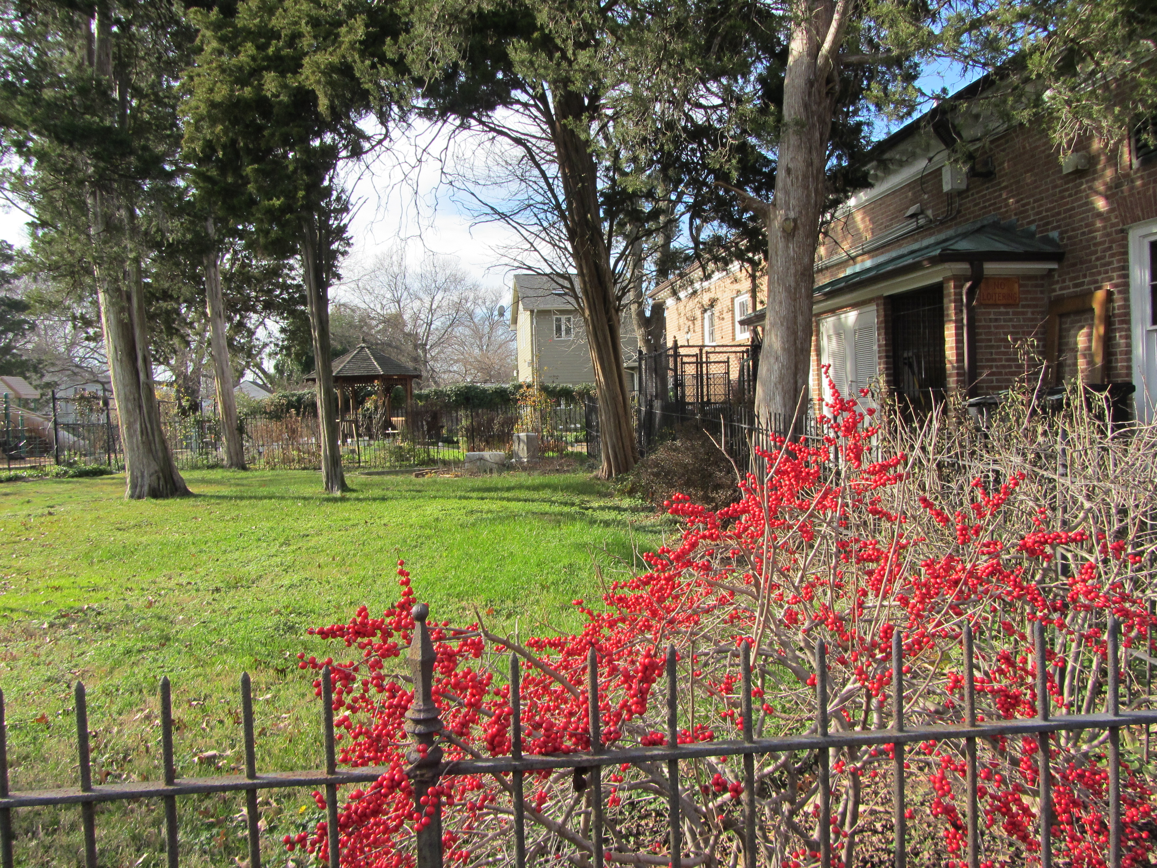 Shooting from the library parking lot, looking west across the Carlin Family Cemetery toward the playground of Carlin Hall.